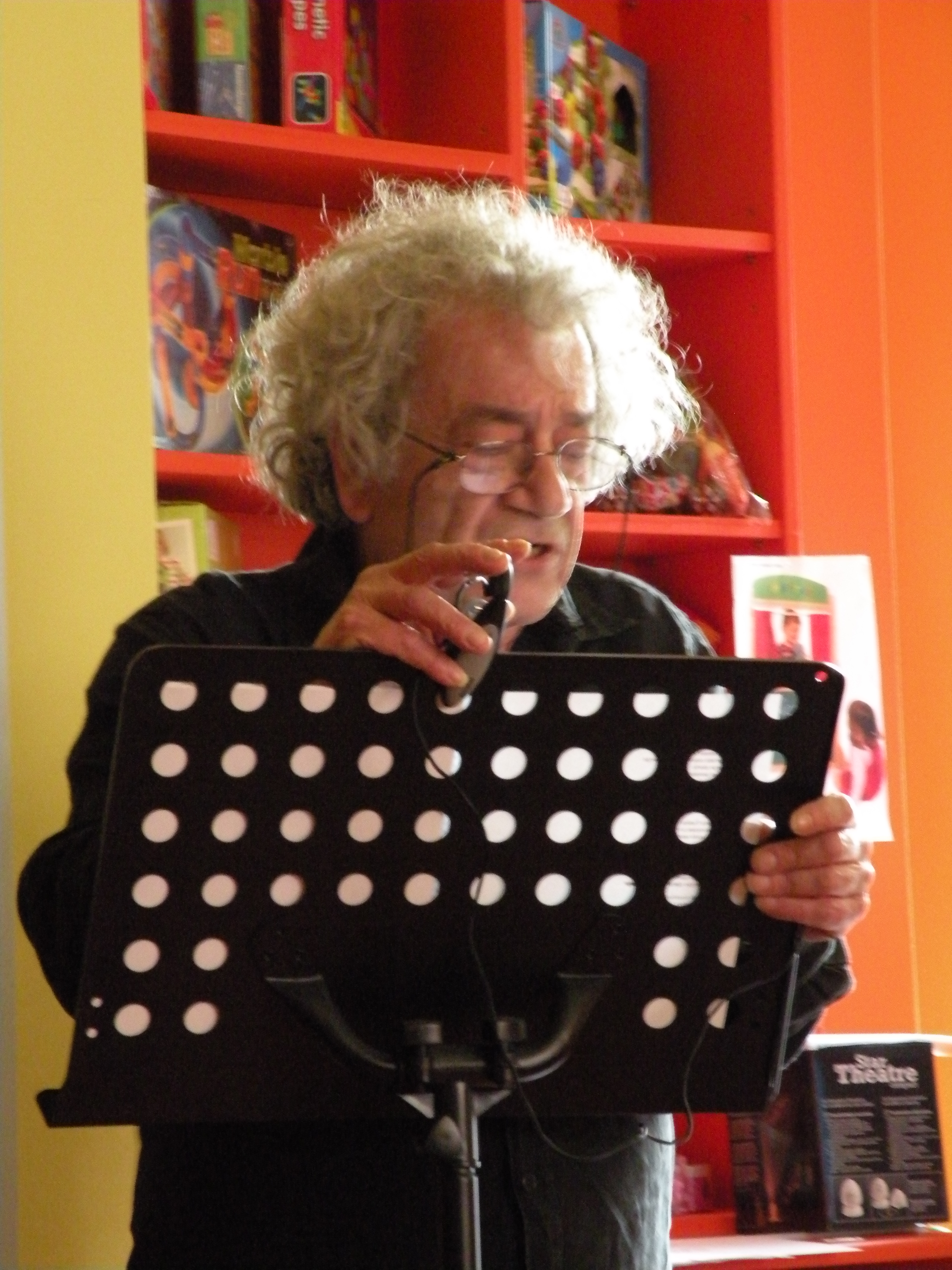 Beppe Costa during a reading